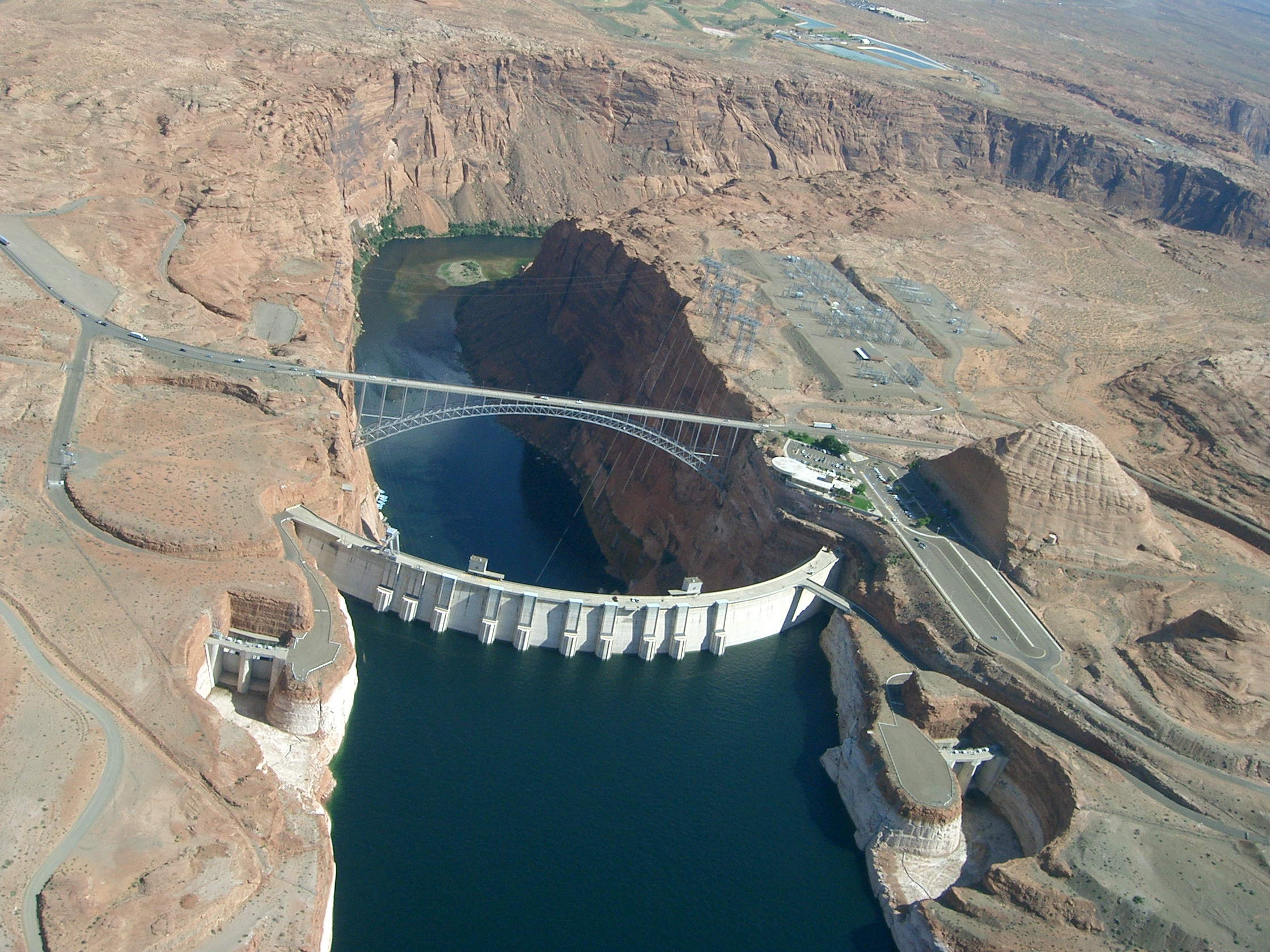 Glen Canyon — with Glen Canyon Dam, Glen Canyon substation, Lake Powell, and the bridge, in northern Arizona.